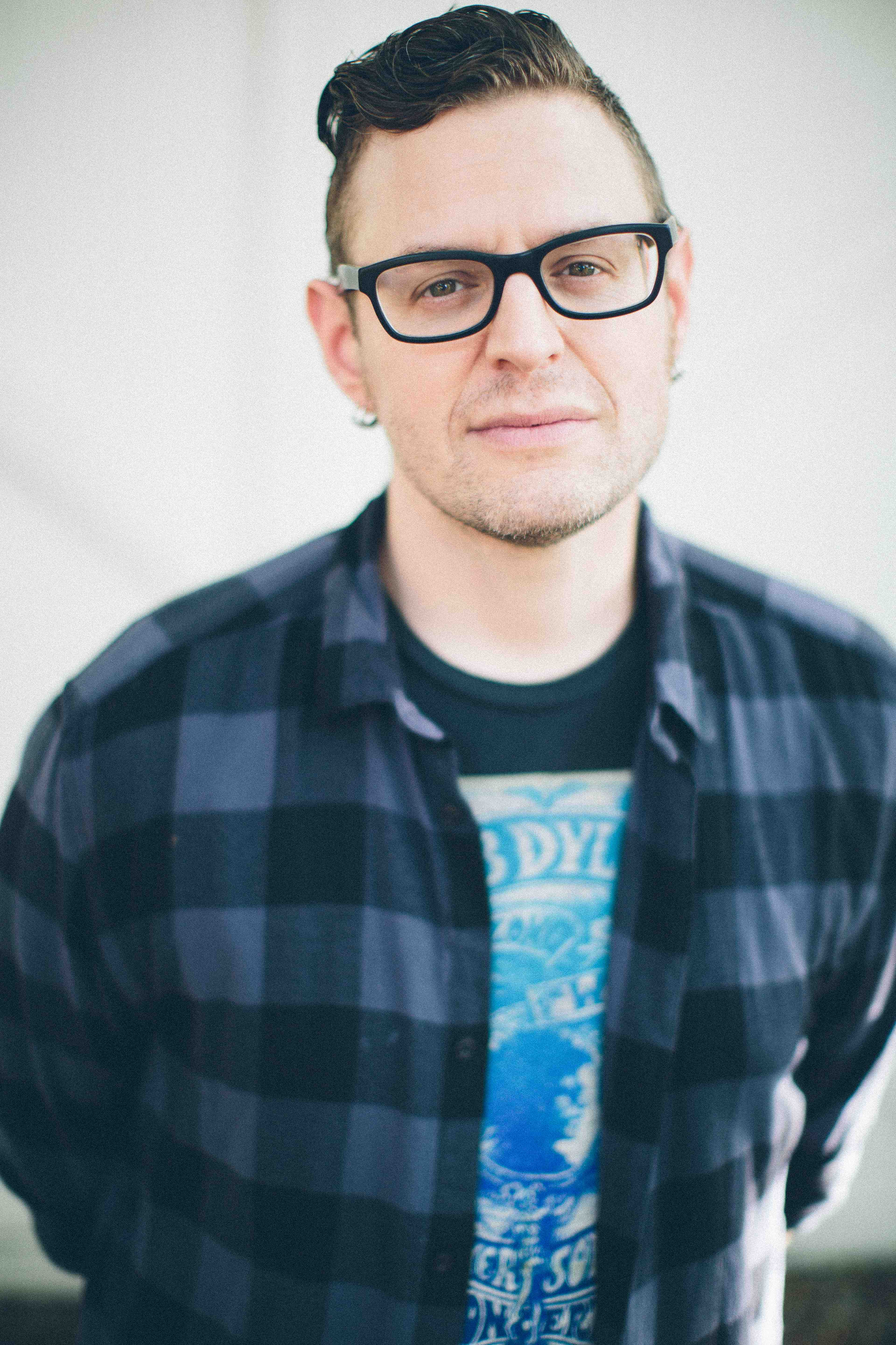 Purple flannel with Bob Dylan tshirt